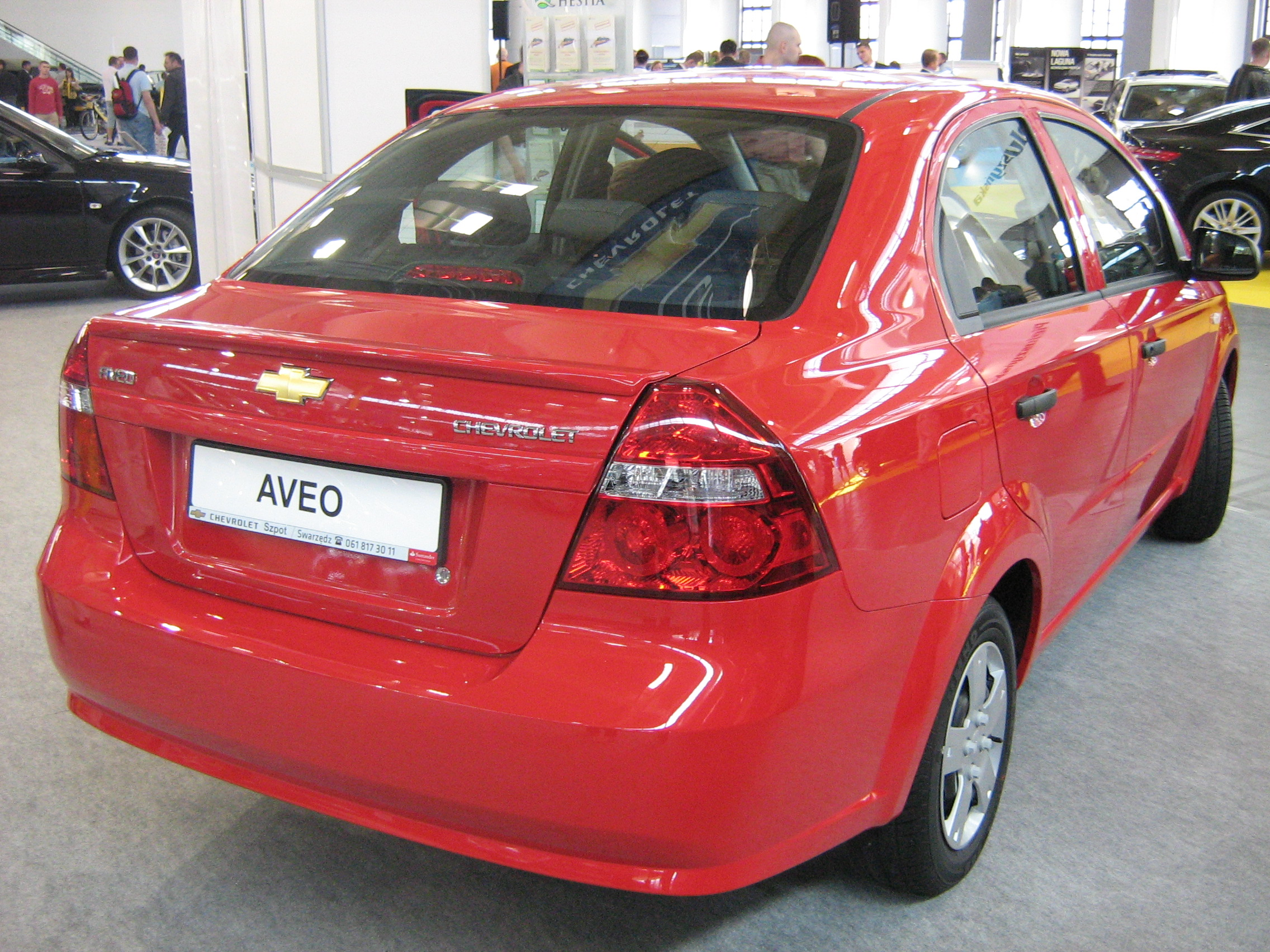 Chevrolet Aveo T250 sedan rear - PSM 2009 in Poznan.